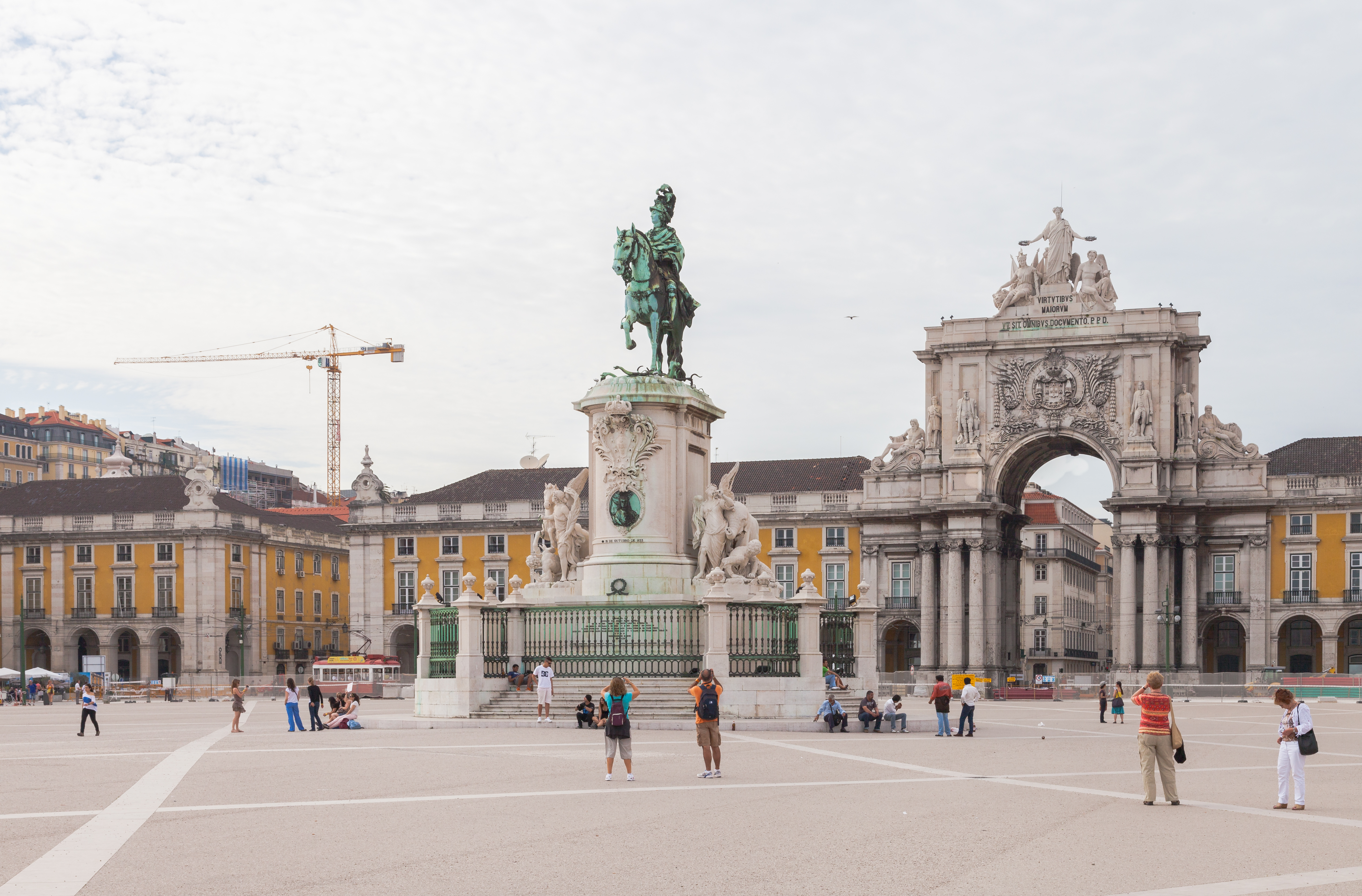 Statue of D. Joseph, Commerce Square, Lisbon, Portugal